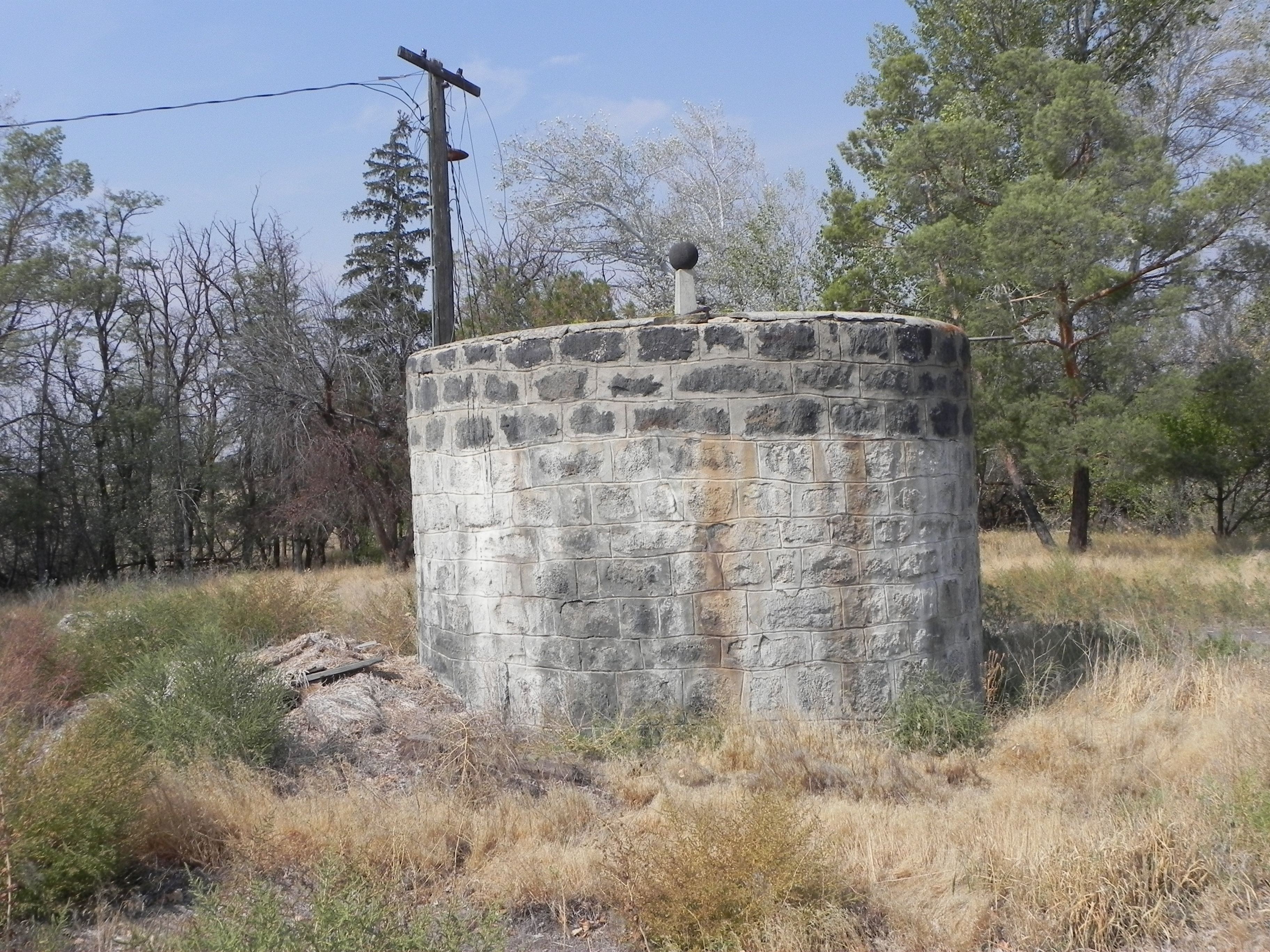 Denton J. Paul Water Tank built in 1910 by stonemason Ignacio Berriochoa.